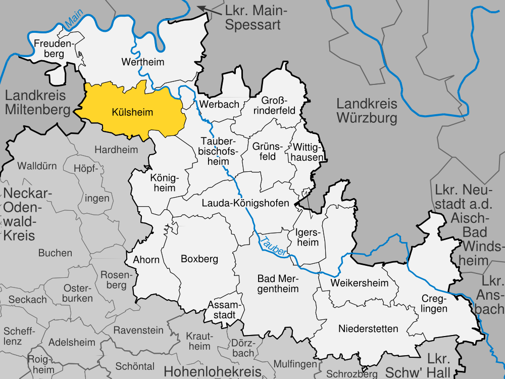 position of Külsheim within the Main-Tauber-Kreis, Baden-Württemberg, Germany